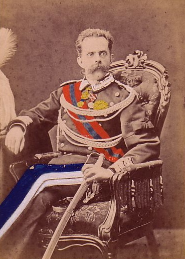 Luigi Montabone (18..-1877) - The king Umberto I of Italy. Hand-colored photograph. Dated on back "1878" but taken between 1870 and 1877.